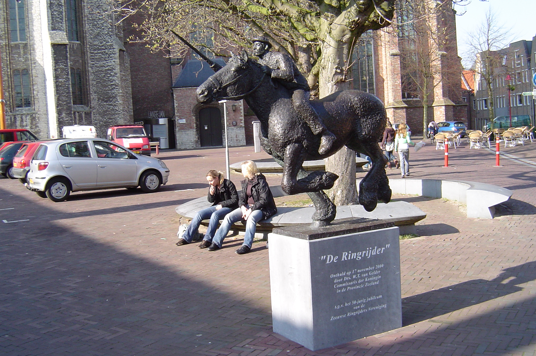 Statue honoring the Zeeland sport of ringrijden (ring catching by horse) beneath the Long Jan tower in Middelburg, by Gerard Brouwer 2000).